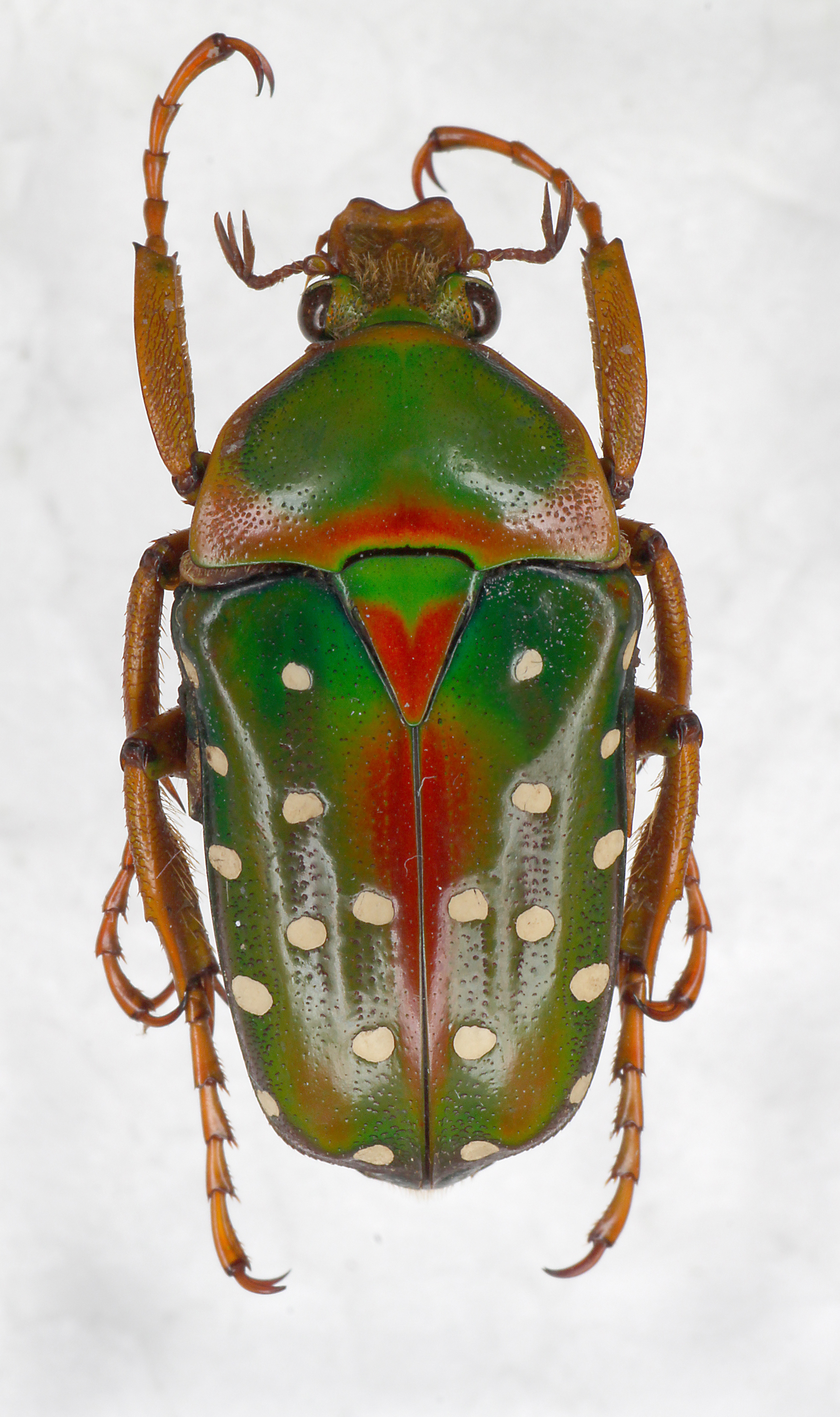 Stephanorrhina guttata, Family: Scarabaeidae.